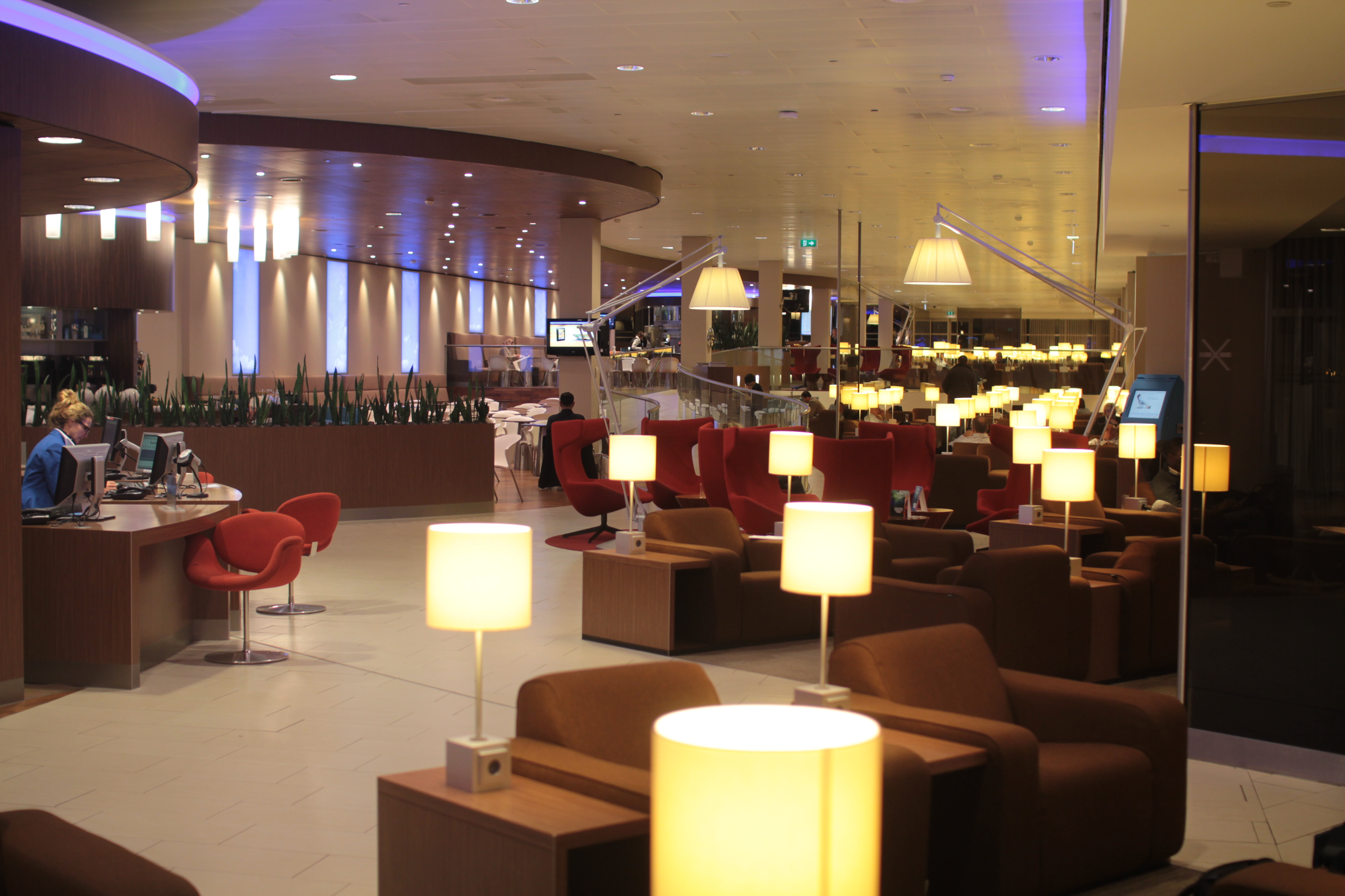 The KLM Crown lounge in the non-Schengen area of Schiphol airport, november 2012